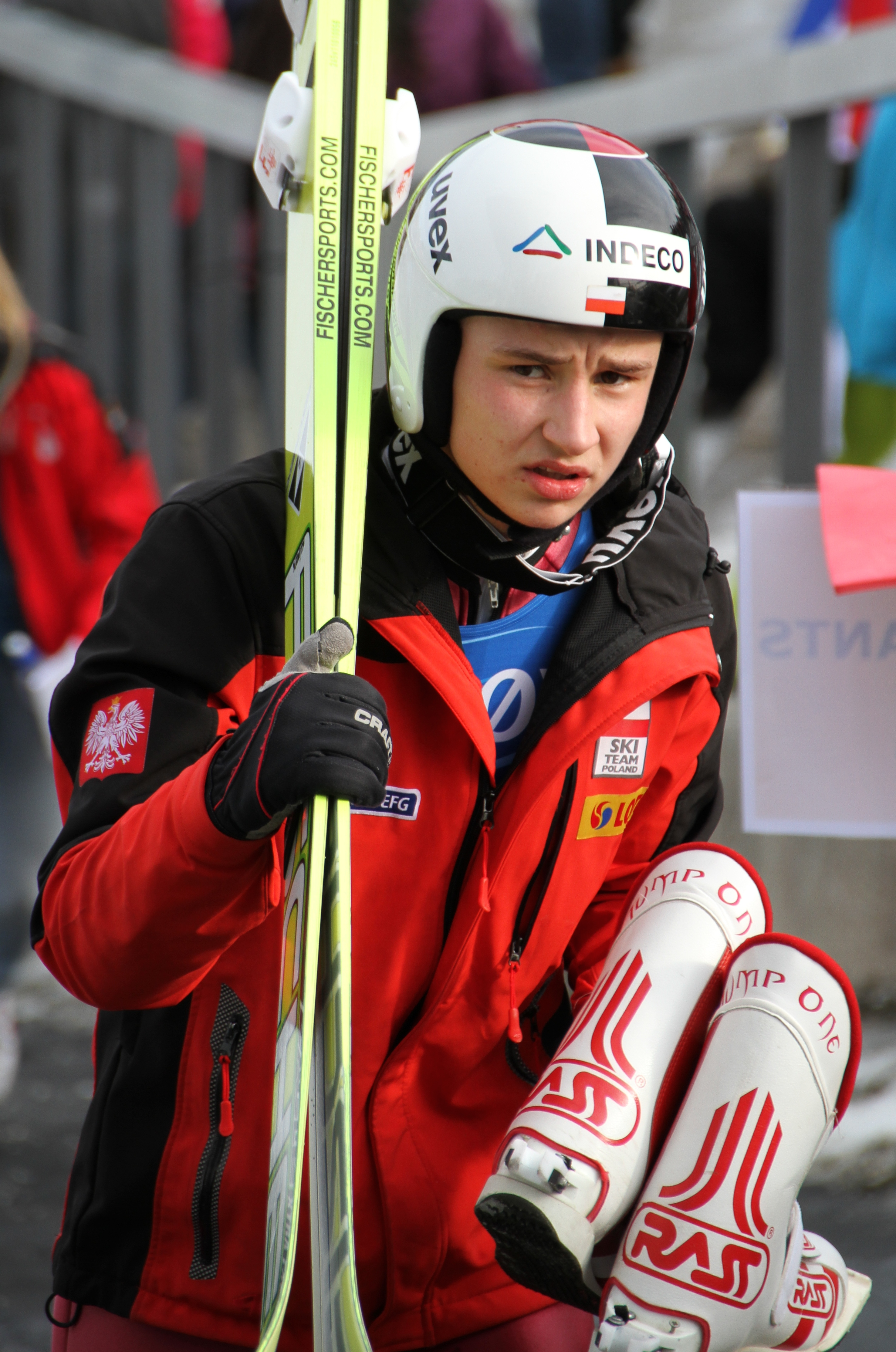 From the first round in the third last tournament of FIS 2011-12 World Cup, ski jumping, Marsch 11. 2012.